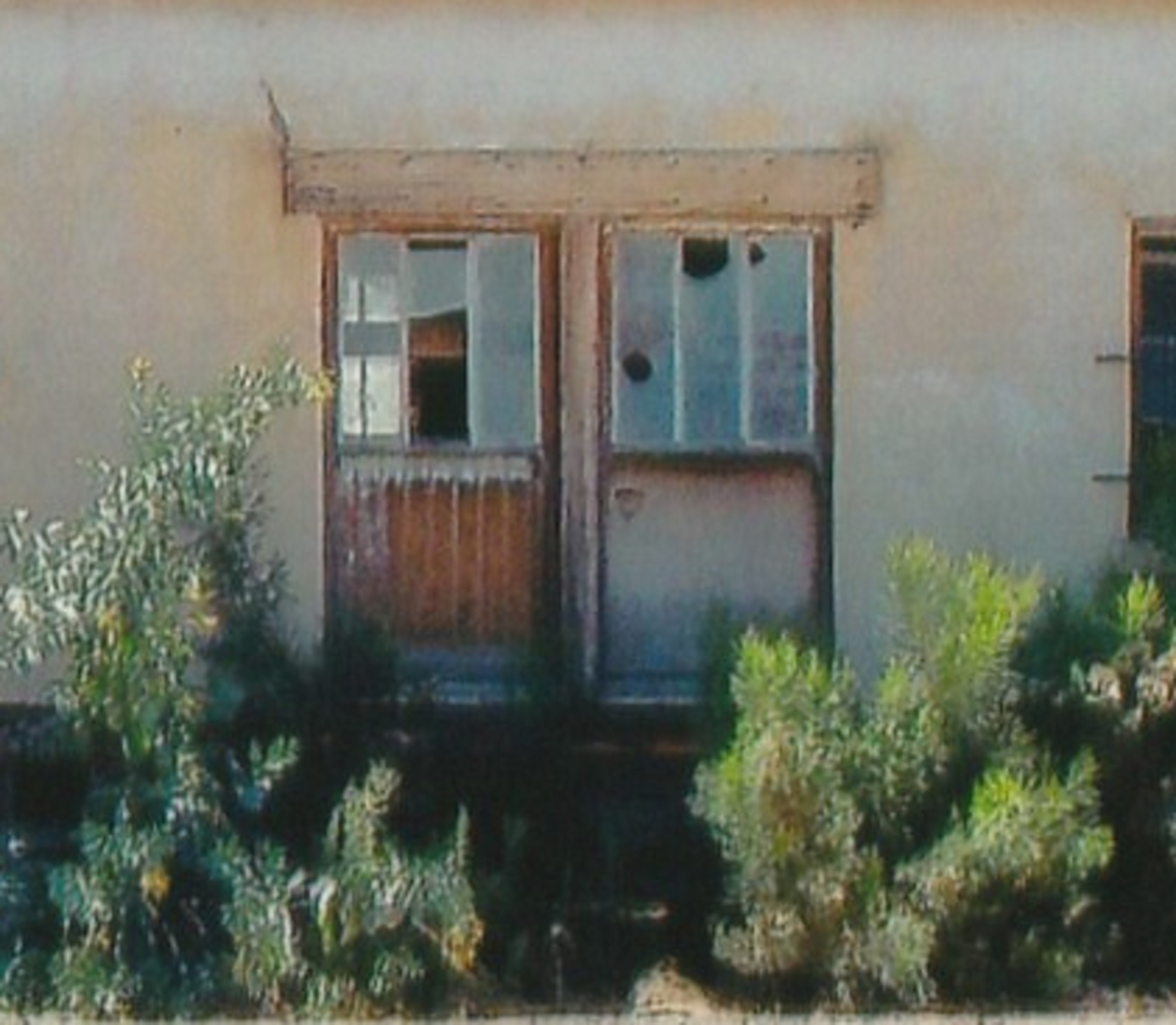 Deterioting condition of the Litchfield Park Train Station-built in 1920, near Maricopa County 85 and Litchfield Road. Now located in Goodyear, AZ